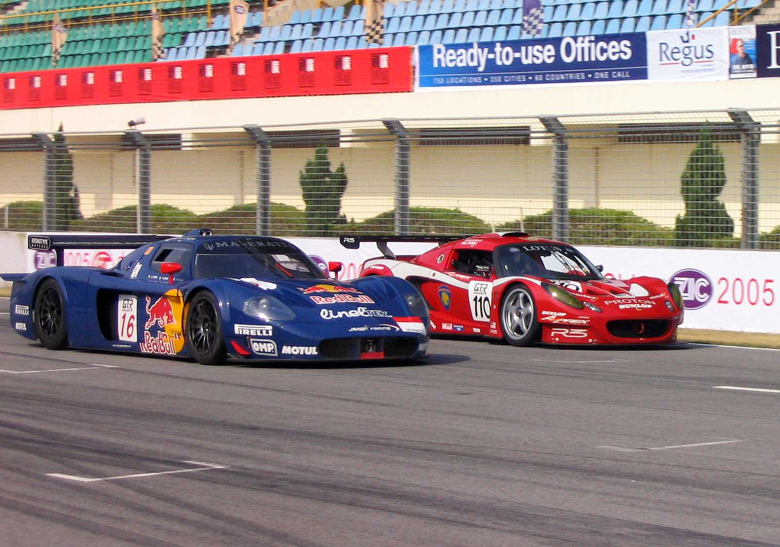 Maserati MC12 and Lotus Exige 300RR during practice at Zhuhai International Circuit for the 2005 FIA GT Championship race.